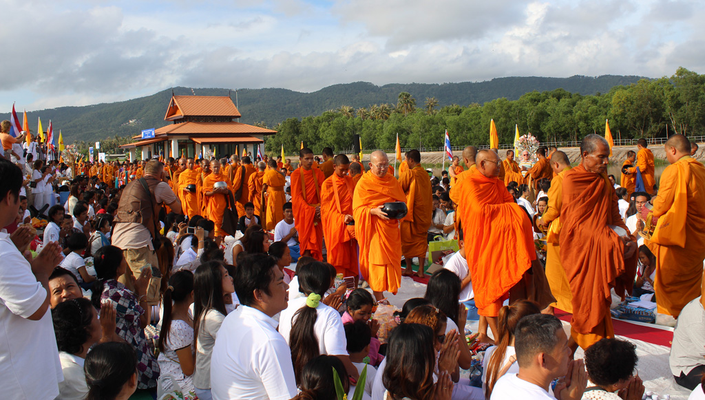 2600 Buddhist monks receives alms Sunday morning at Chaweng Lake, Koh Samui